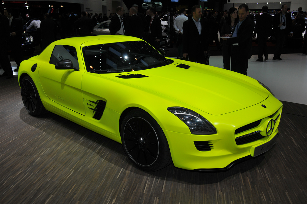 The Mercedes-Benz SLS AMG E-CELL at the Geneva Motor Show 2011.